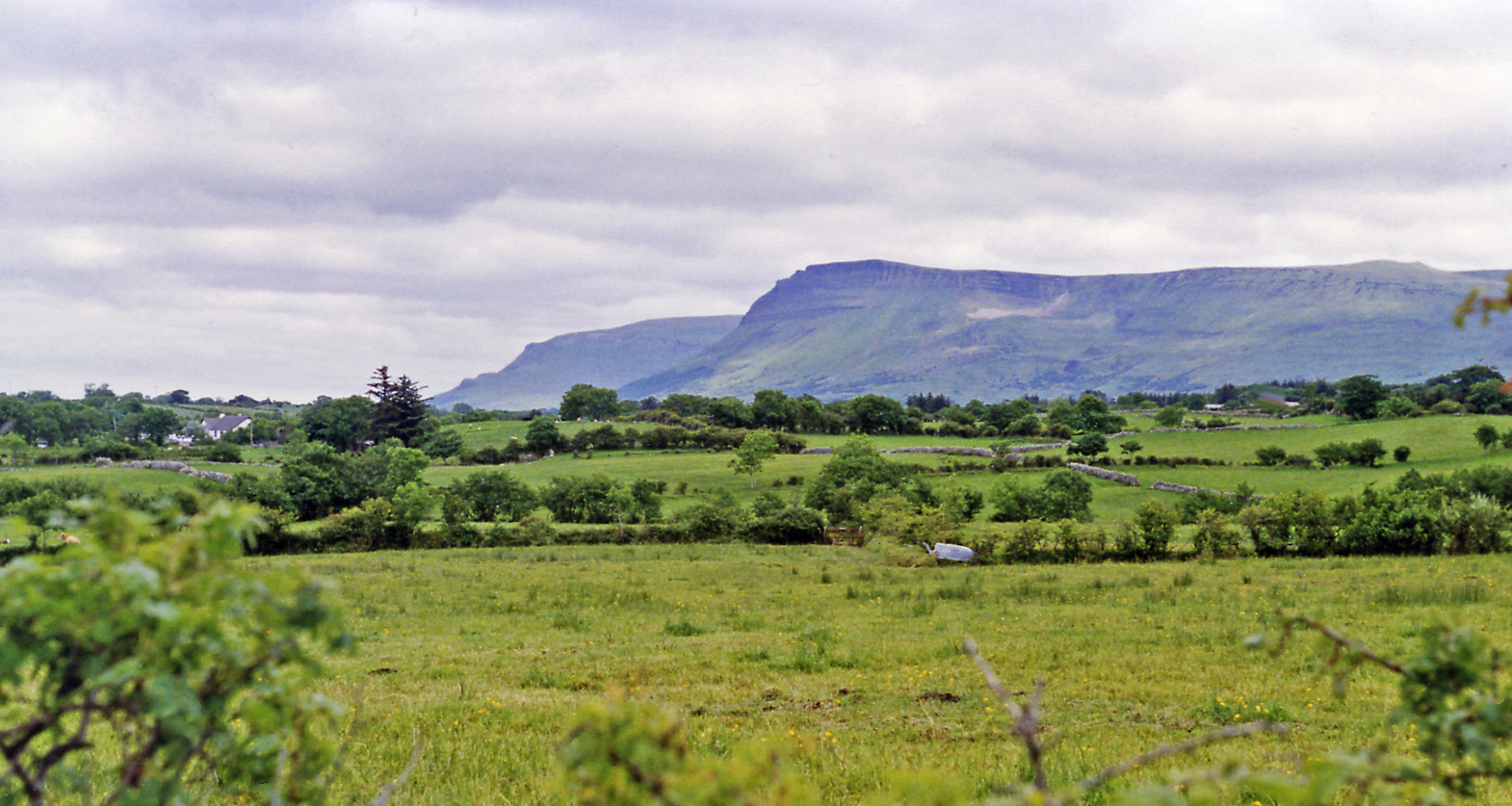 Dartry Mountains from N15 (Donegal - Sligo) road north of Grange (Co. Sligo). View NE: nearest is Truskmore (2,112 ft.).